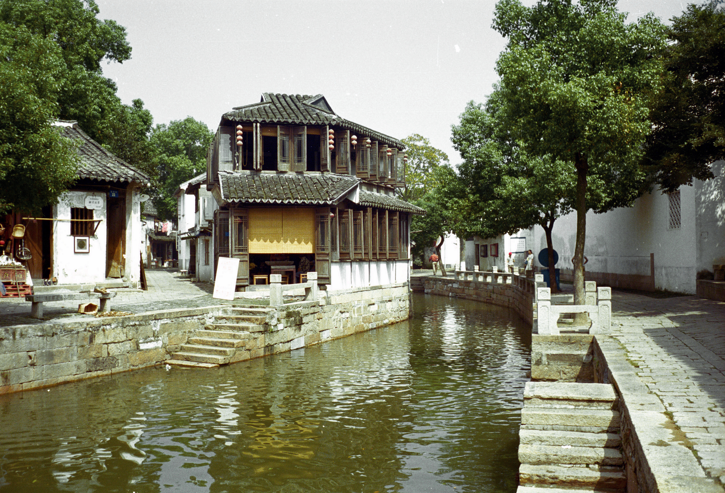 Tongli teahouse